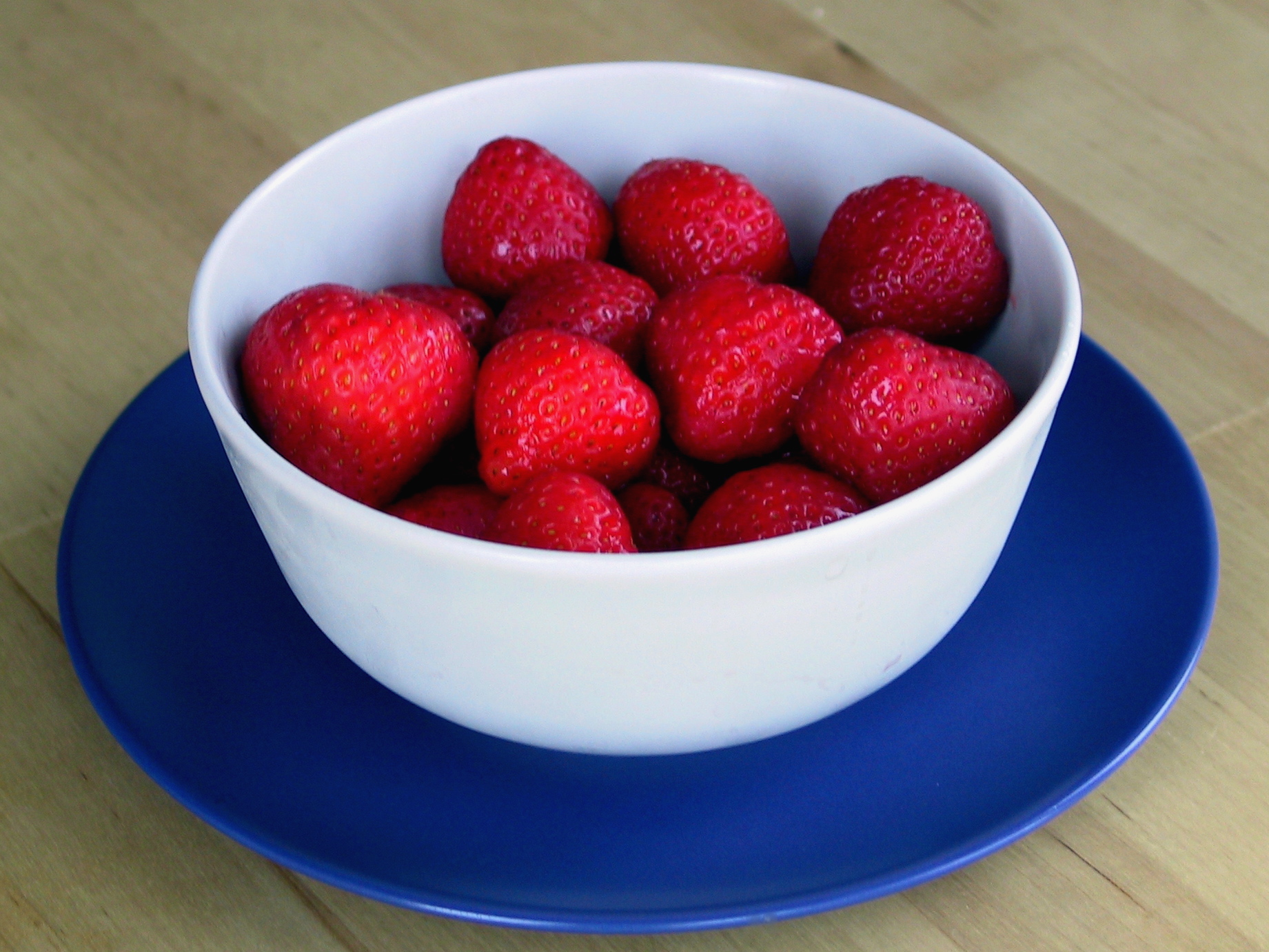 Strawberries: Late season, slightly over-ripe strawberries.